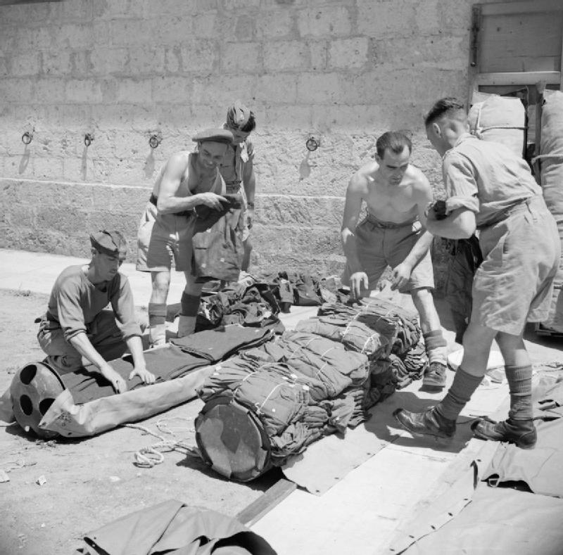 British Aid To Partisans in Northern Italy, April - May 1945 A consignment of shirts and battledress is packed into containers for dropping to the partisans.